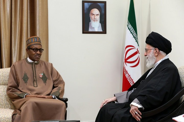 Muhammadu Buhari, the Nigerian president and his entourage met with the Supreme Leader of Iran.